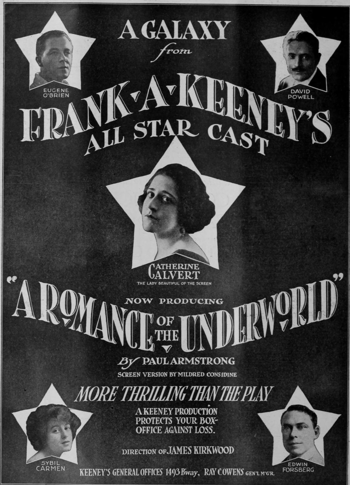 Advertisement for the 1918 American film A Romance of the Underworld with Catherine Calvert, Eugene O'Brien, David Powell, Sibyl Carmen, and Edwin Forsberg.